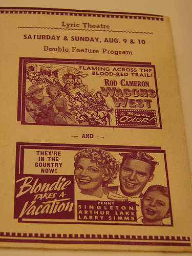 Poster -- Rod Cameron in Wagons West